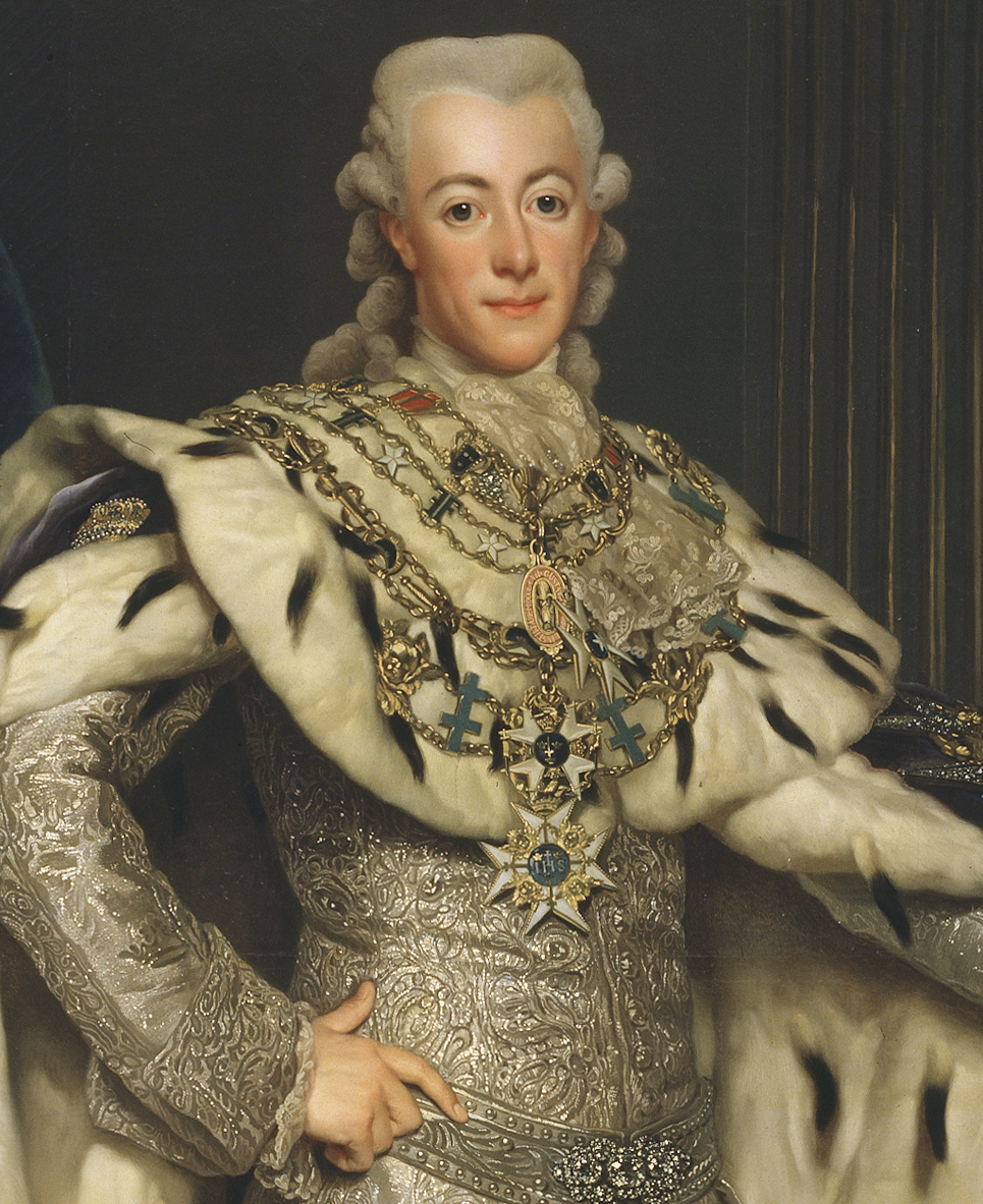 Gustav III in coronation-robe.